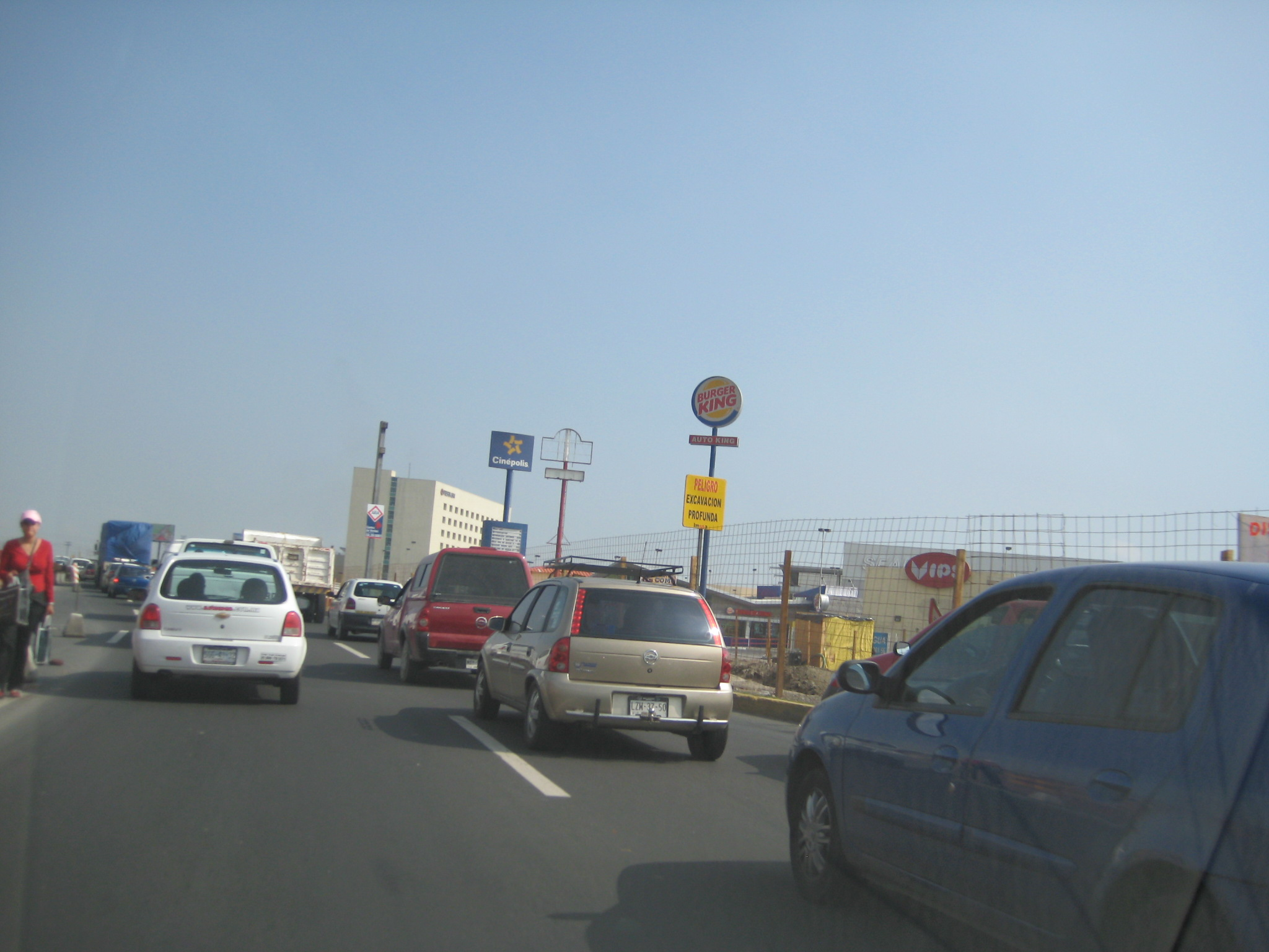 Centro comercial Plaza Las Américas, Ecatepec, Estado de México